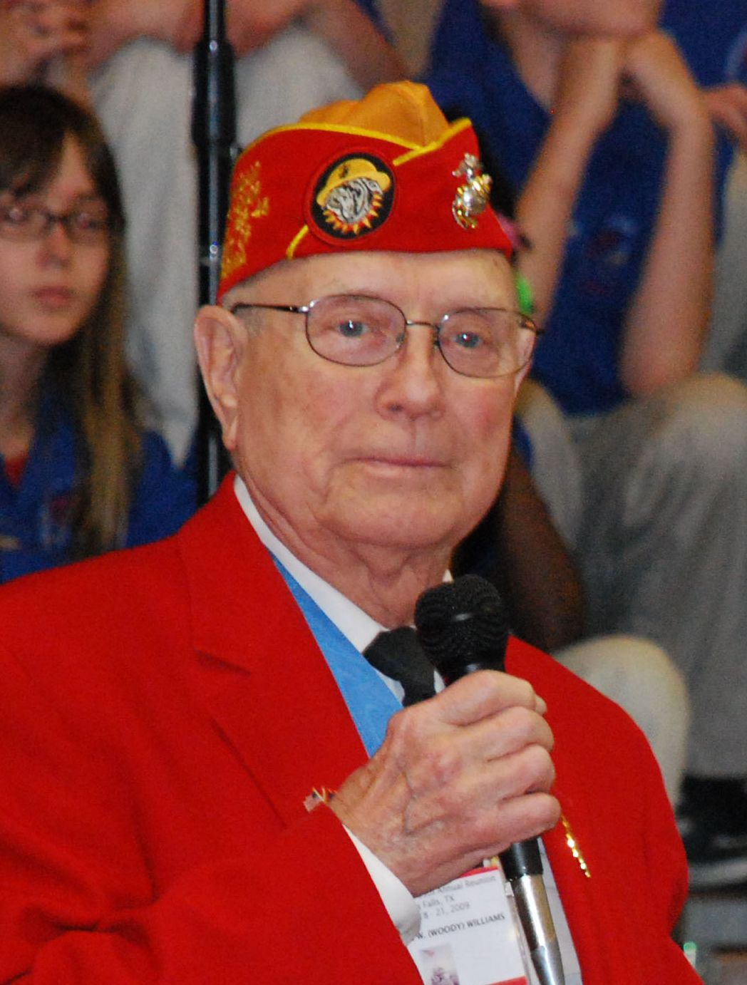 Sheppard Elementary hosts Iwo Jima Reunion Luncheon - Hershel "Woody" Williams, an Iwo Jima Medal of Honor recipient, speaks during the Iwo Jima Survivors Reunion Luncheon at Sheppard Elementary School on February 19. The students honored the veterans with a musical tribute after the luncheon.